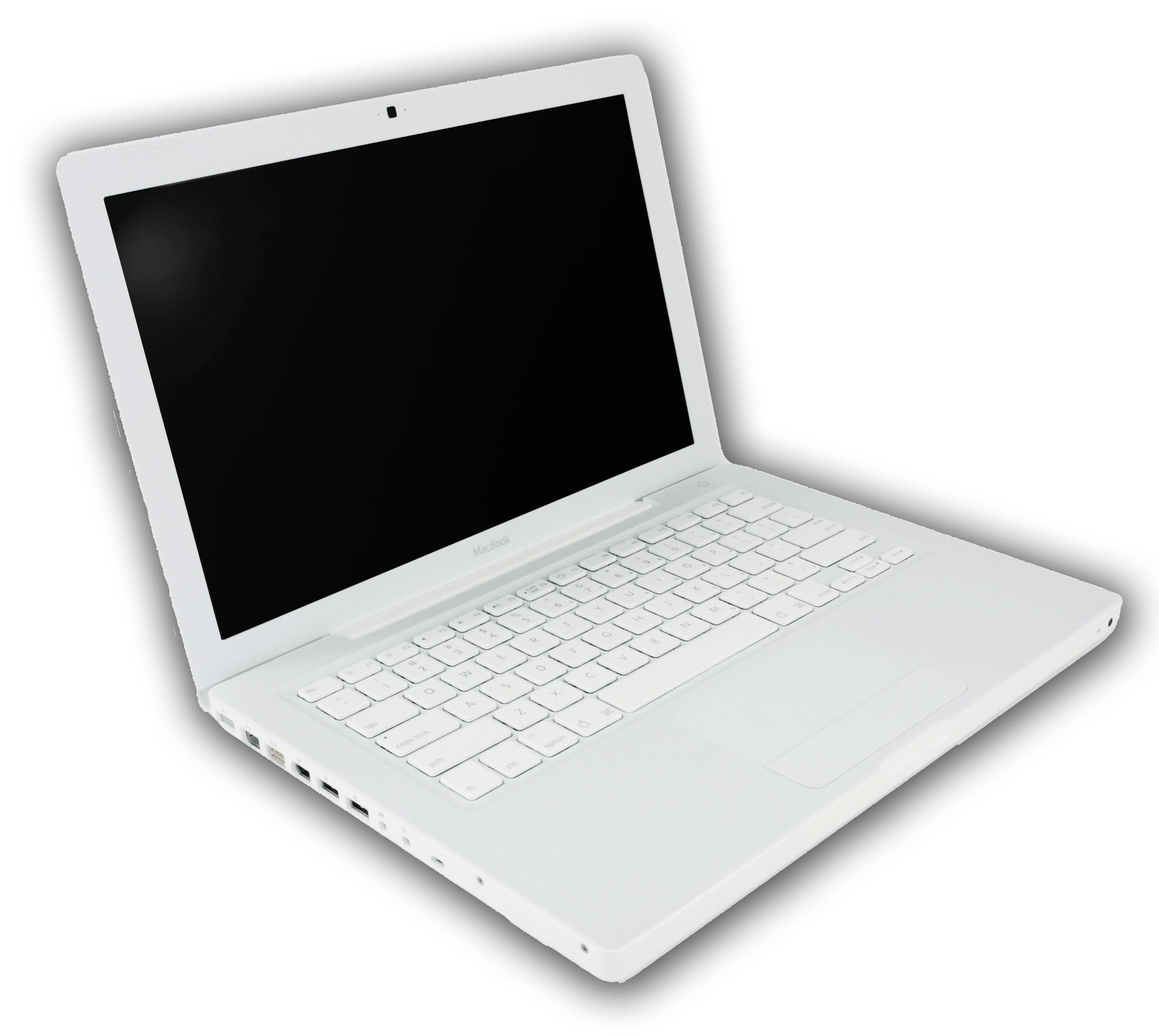 White MacBook laptop